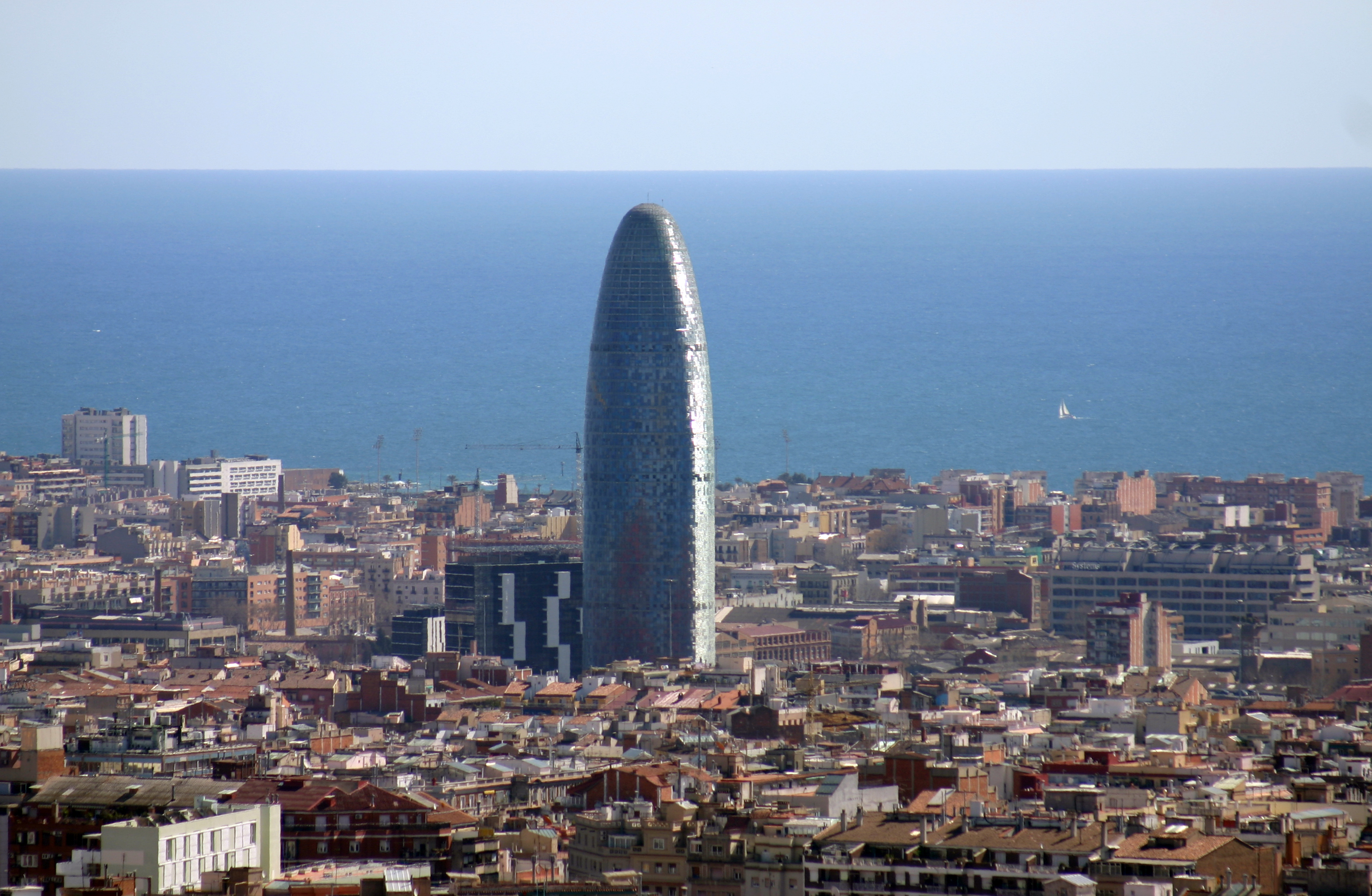 Torre Agbar seen from the Park Güell.